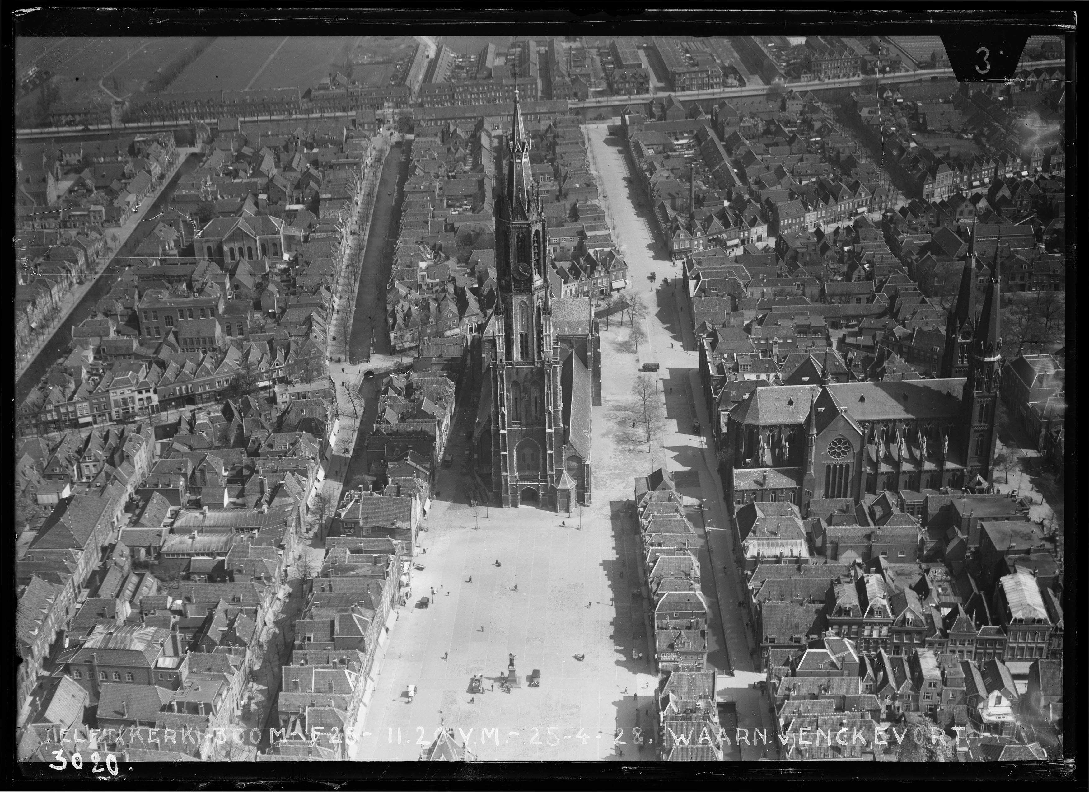 Aerial photograph of Delft, The Netherlands